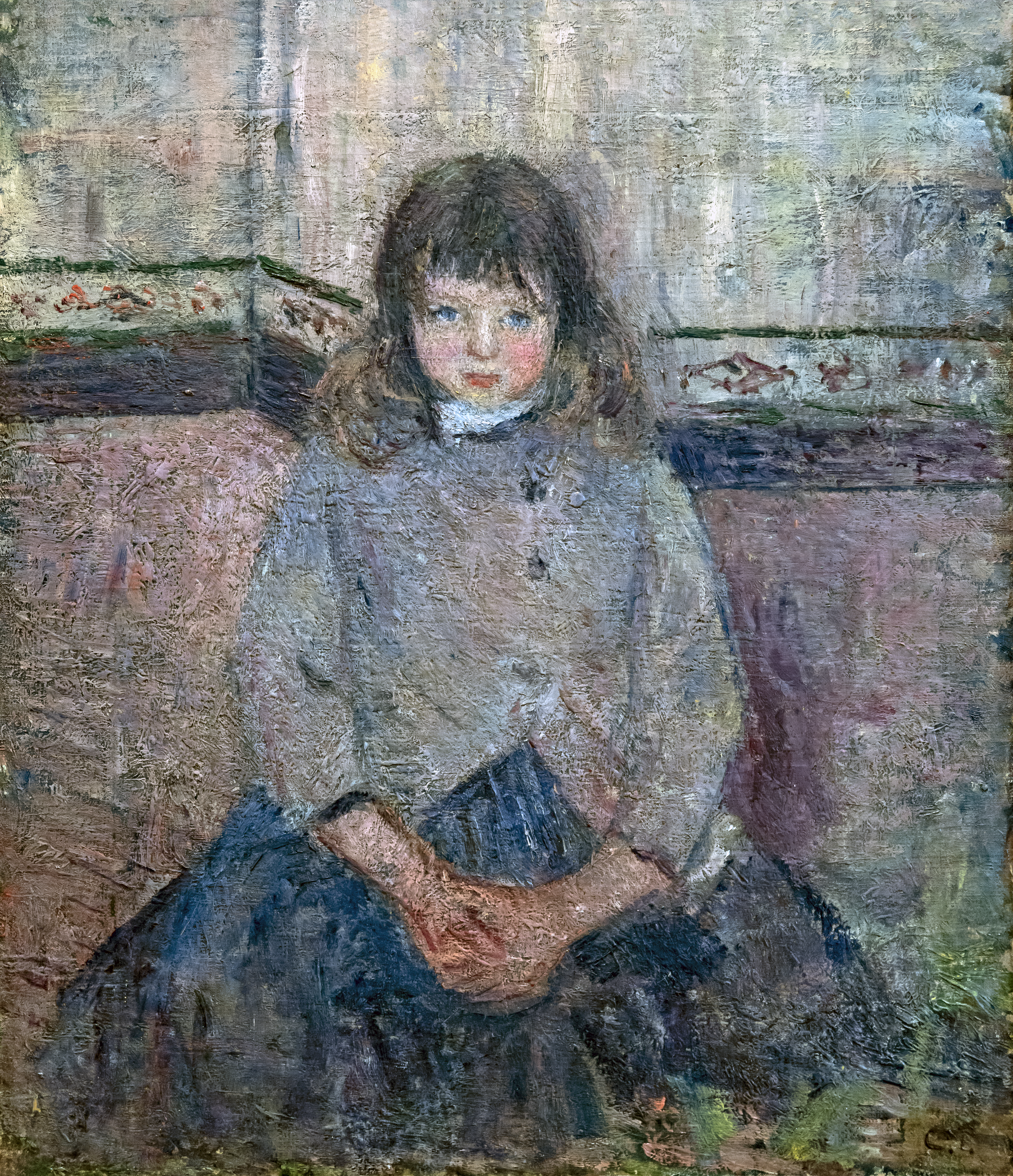 Depicted person: Félix Pissarro – painter